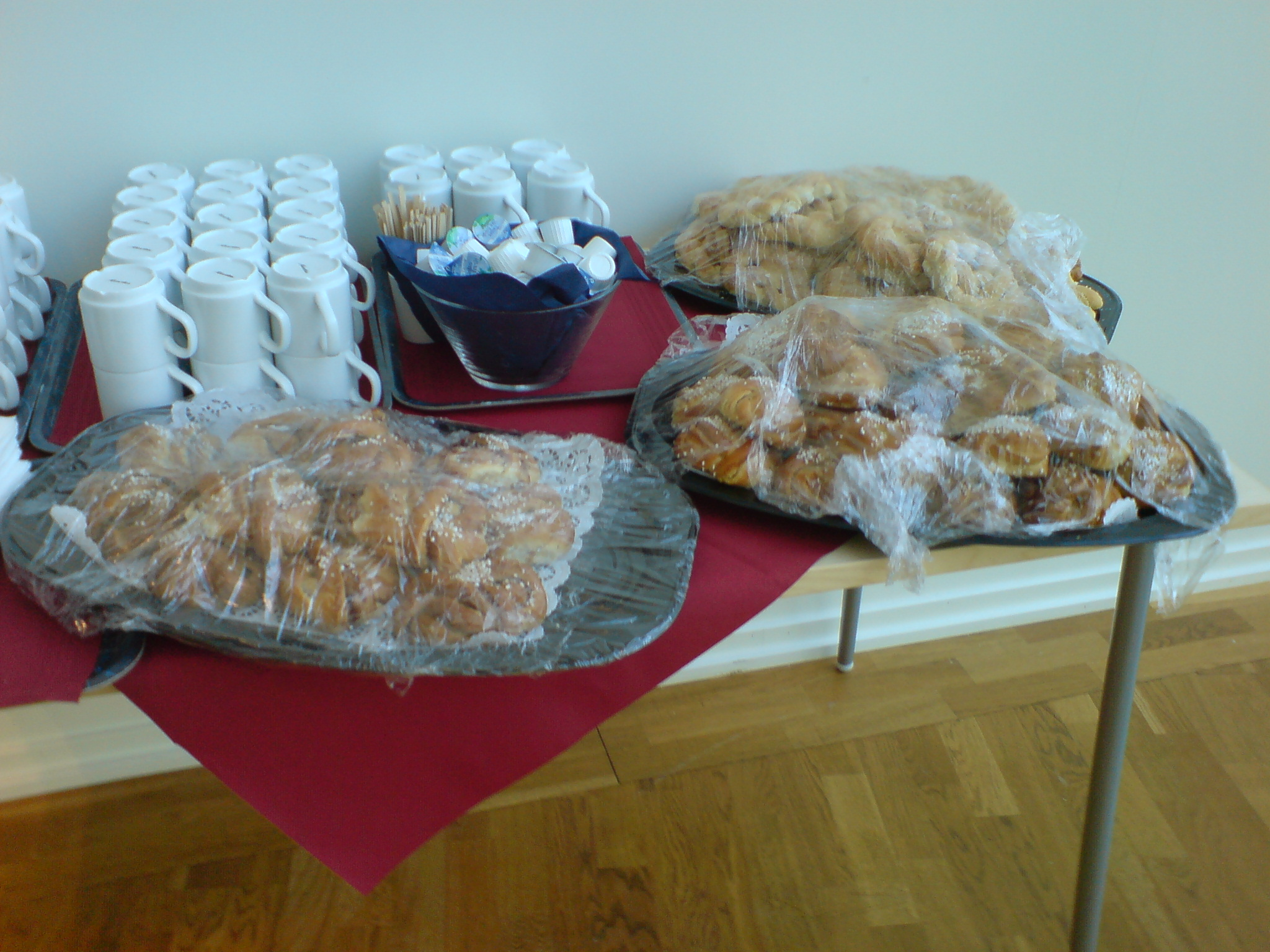 Kaffebord med bulle under ett möte